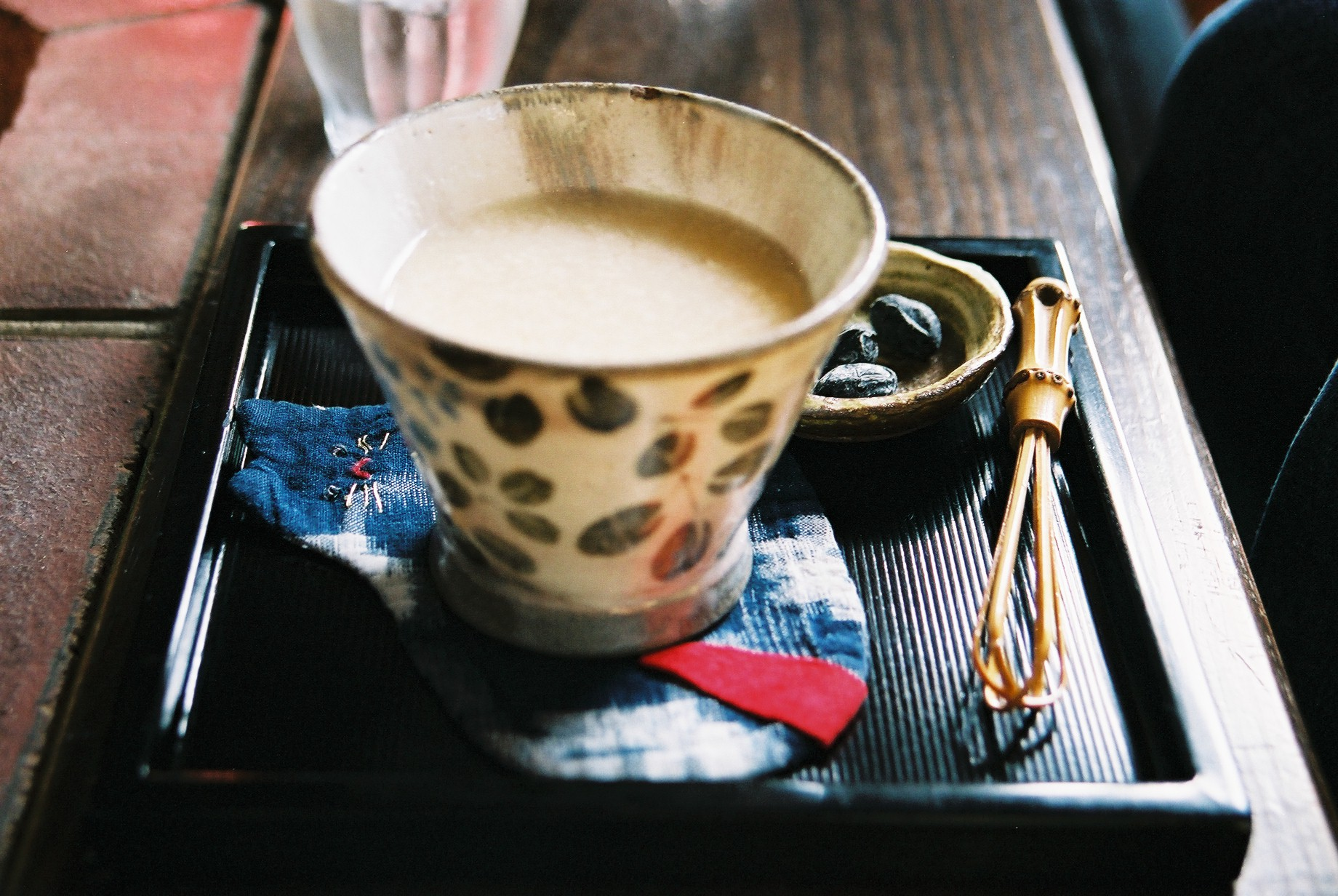 This is not milk, nor tea. It's 'amazake' or sweet sake made of rice. At the cafe on Mother's Day